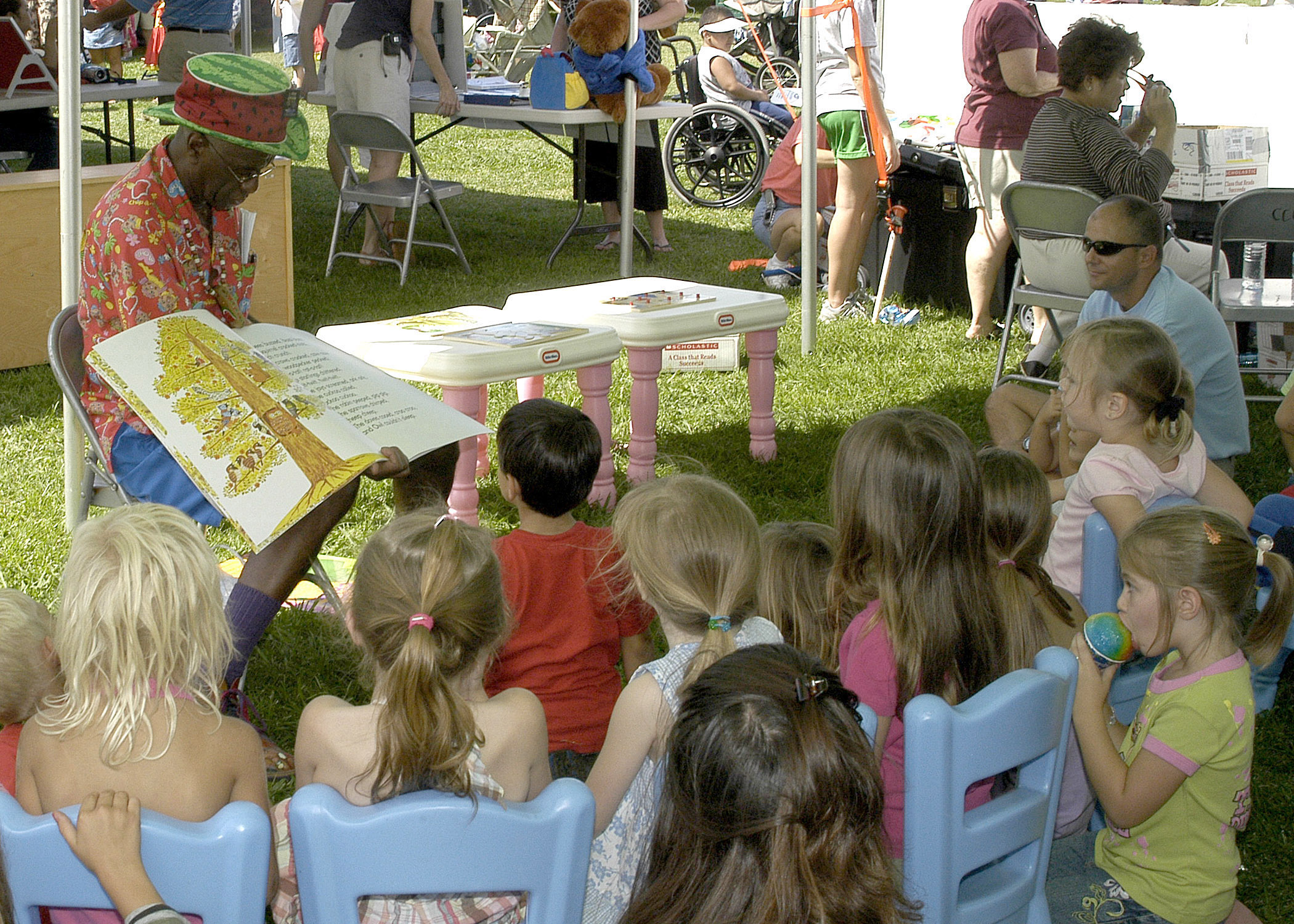 PEARL HARBOR, Hawaii (April 21, 2007) - Wally Amos, founder of Famous Amos Cookies takes children on a reading adventure during Springfest, an event that celebrates children during the Month of the Military Child on Naval Station Pearl Harbor. Springfest was celebrated in conjunction with Earth Day events worldwide. U.S. Navy photo by Mass Communication Specialist 2nd Class Lindsay Switzer (RELEASED)